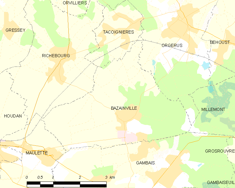 Map of French municipality Bazainville